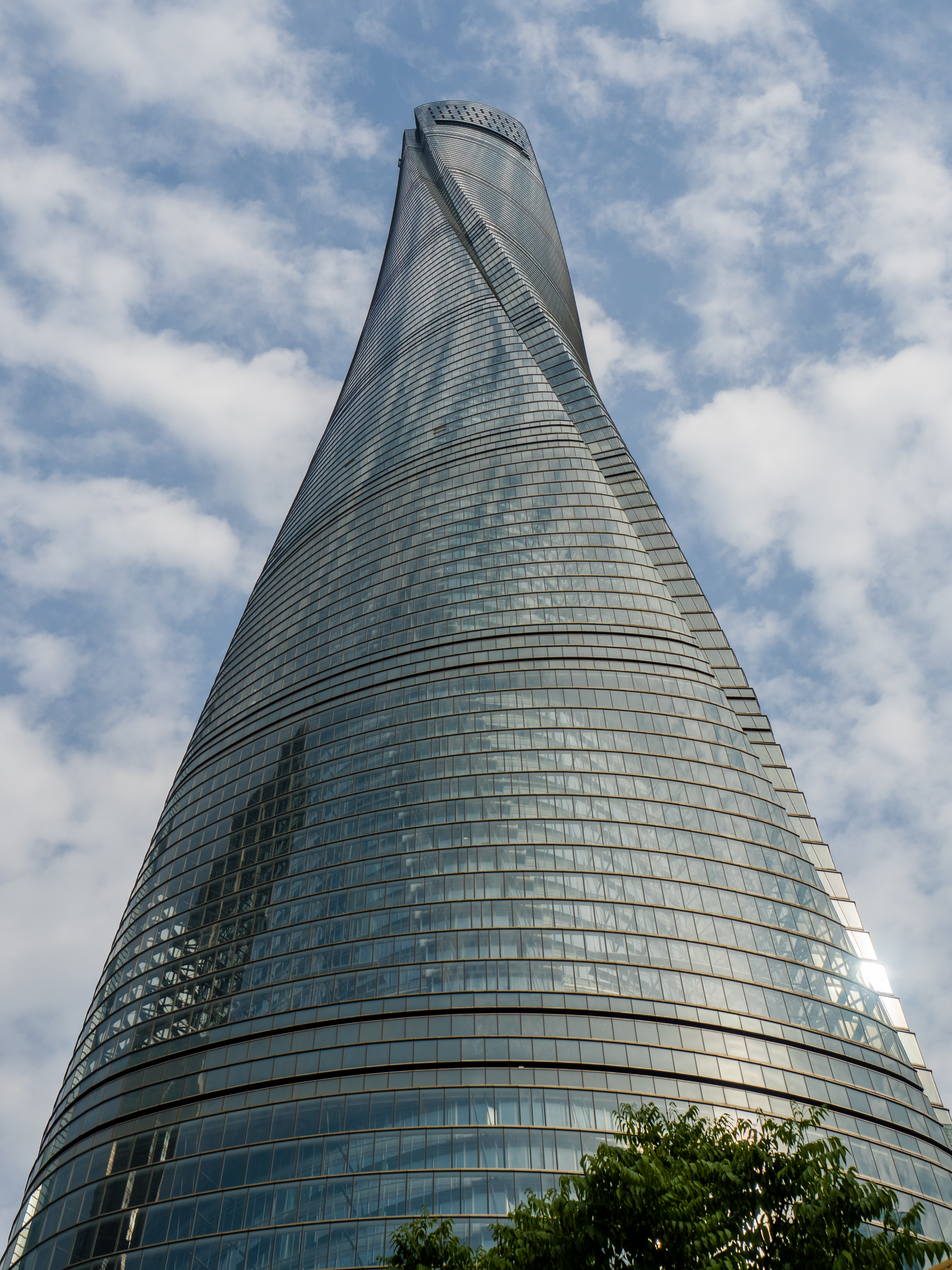 View upwards Shanghai tower